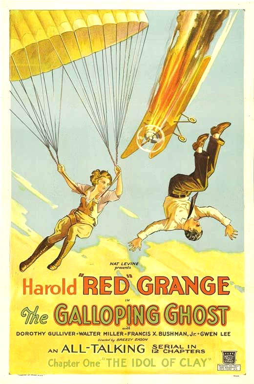 Poster for chapter one of the American film serial The Galloping Ghost (1931).